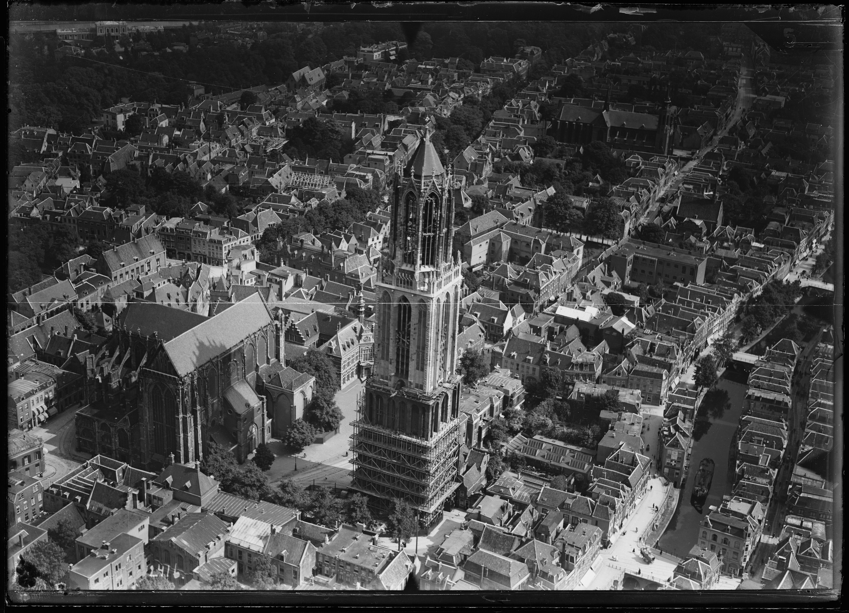 Aerial photograph of Utrecht, The Netherlands